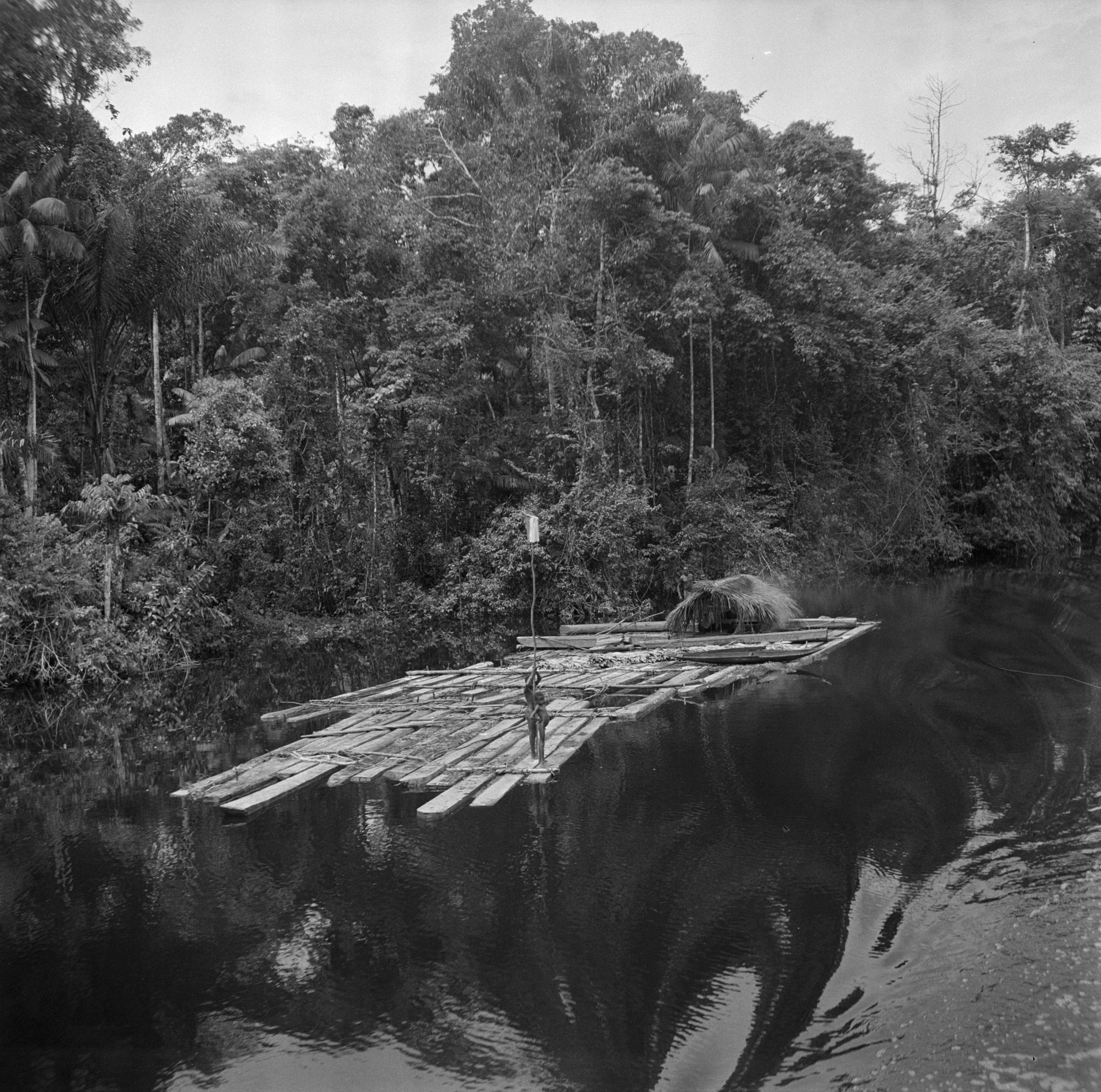 Travel to Suriname and the Netherlands Antilles ; Description: Two children on a raft has been made from the felled wood with lianas that sinks down the Marowijne river ; Annotation: A hut on the raft where the rowers, the 'djukas', sometimes live with their families